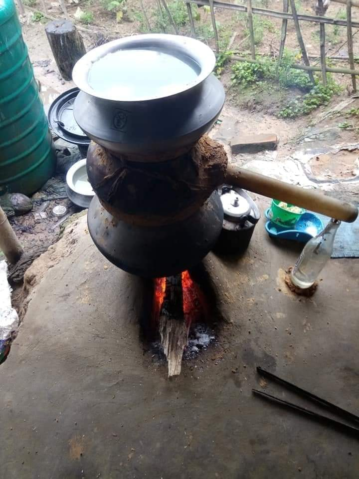 Traditional way to extract alcohol from fermented source.